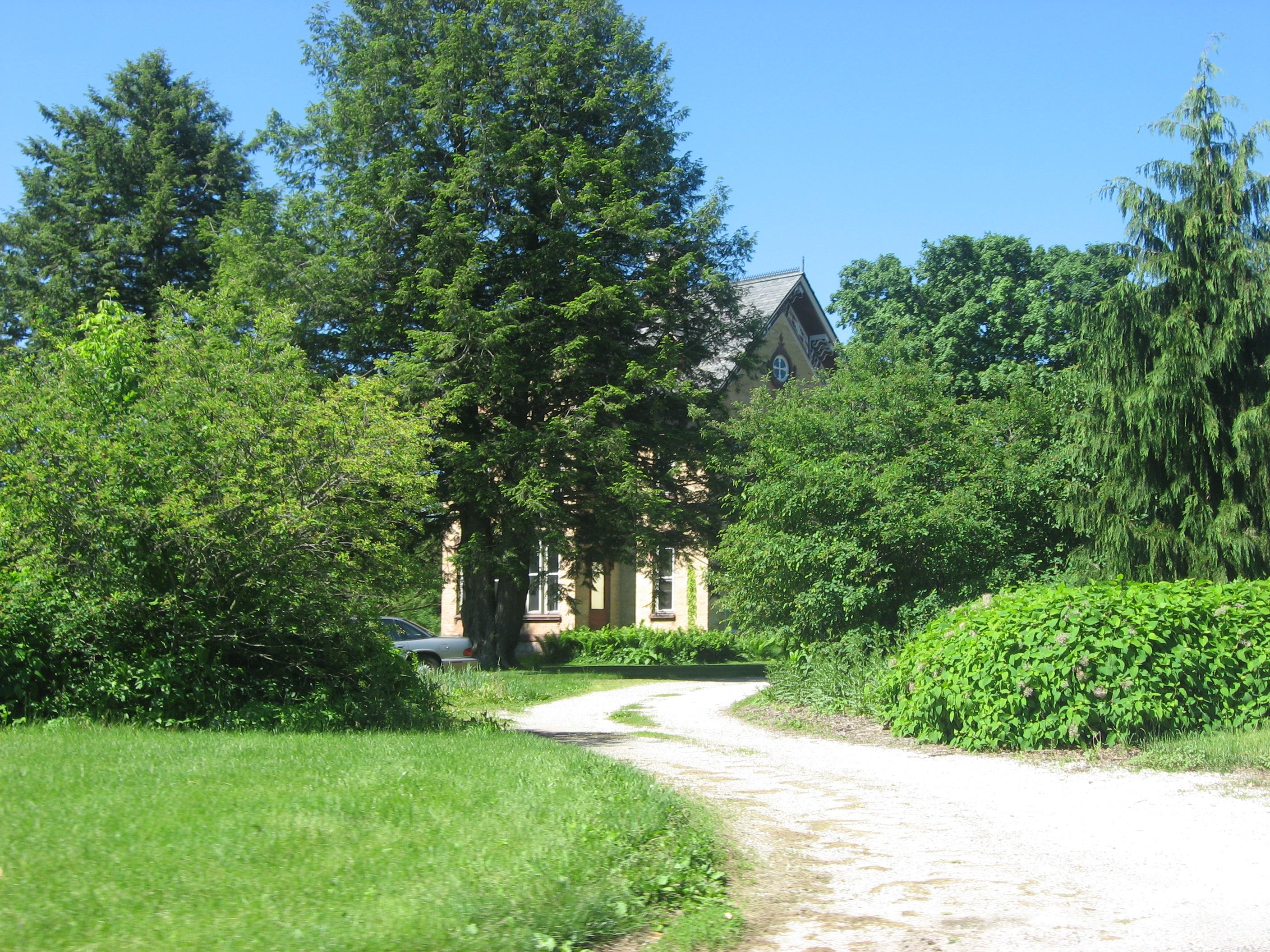 Farmhouse at the John and Cynthia Garwood Farmstead, located at 5600 Small Road west of LaPorte in Center Township, LaPorte County, Indiana, United States. Built in 1866, it is listed on the National Register of Historic Places.